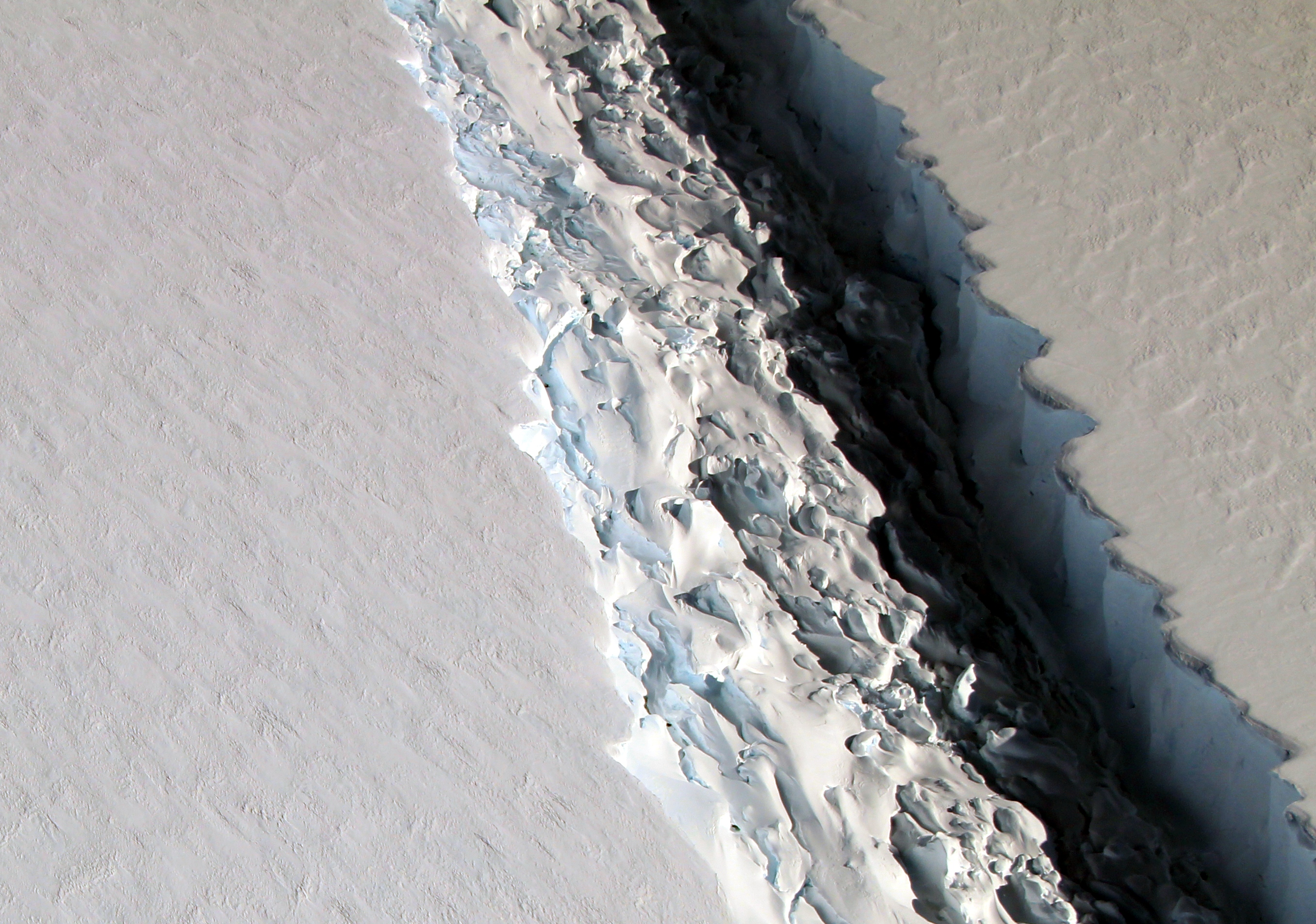 These photograph shows the detail view of the rift in Larsen C from the vantage point of NASA’s DC-8 research aircraft. NASA scientist John Sonntag snapped the photos on November 10, 2016, during an Operation IceBridge flight. The mission, which makes airborne surveys of changes in polar ice, completed its eighth consecutive Antarctic deployment later that month. The rift in Larsen C measures about 100 meters (300 feet) wide and cuts about half a kilometer (one-third of a mile) deep—completely through to the bottom of the ice shelf. While the rift is long and growing longer, it does not yet reach across the entire shelf.